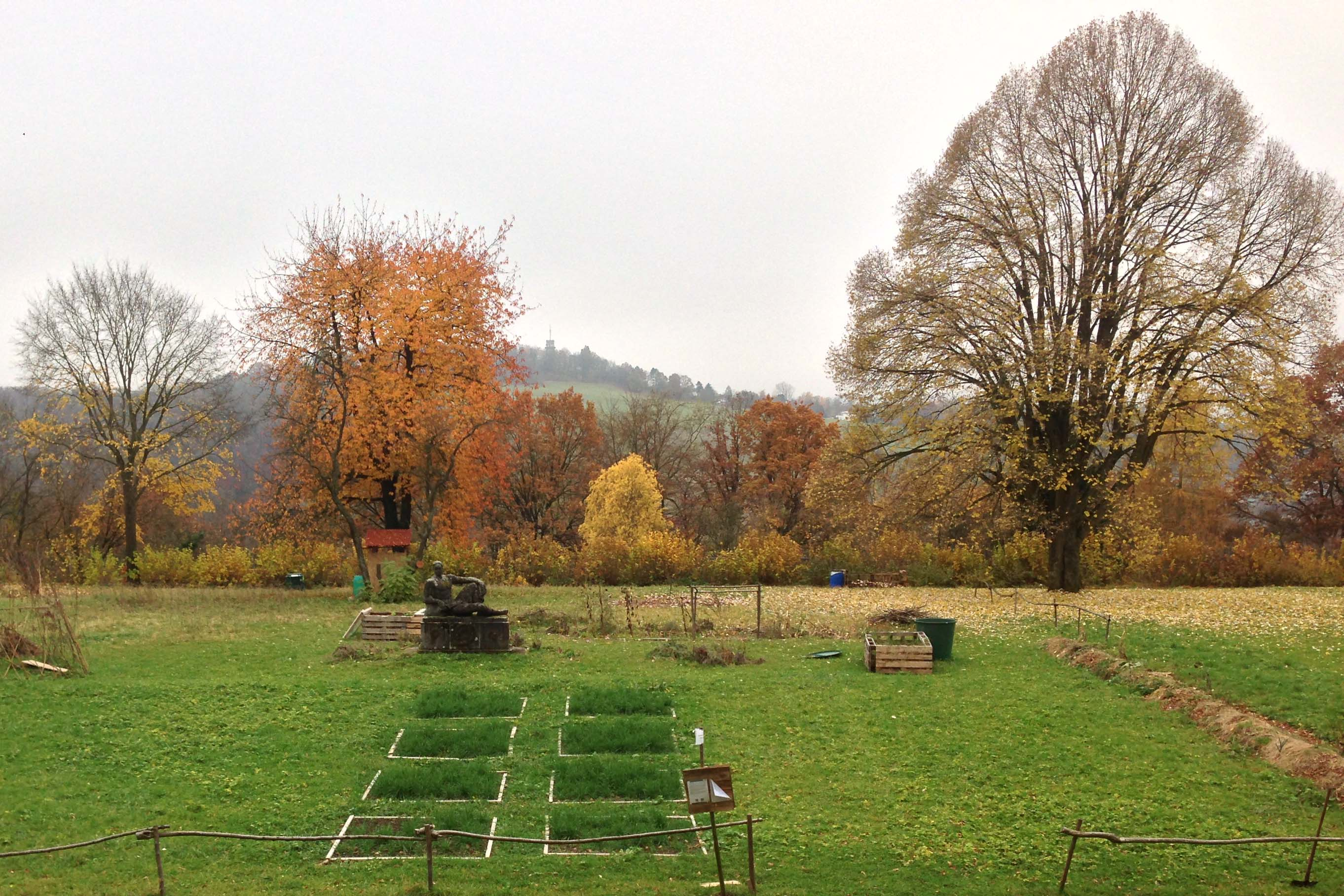 Biochar project in Tübingen in the Sand area, former military hospital